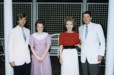 President Ronald Reagan, Nancy Reagan, Lee Atwater, Sally Atwater, Roger Stone, Ann Stone, (Not in all Photos)